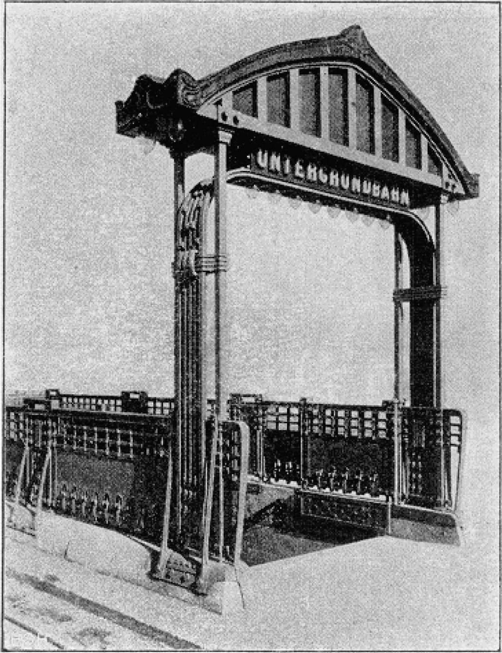 Entrance to the Berlin U-Bahnstation Deutsche Oper (former Bismarckstraße)